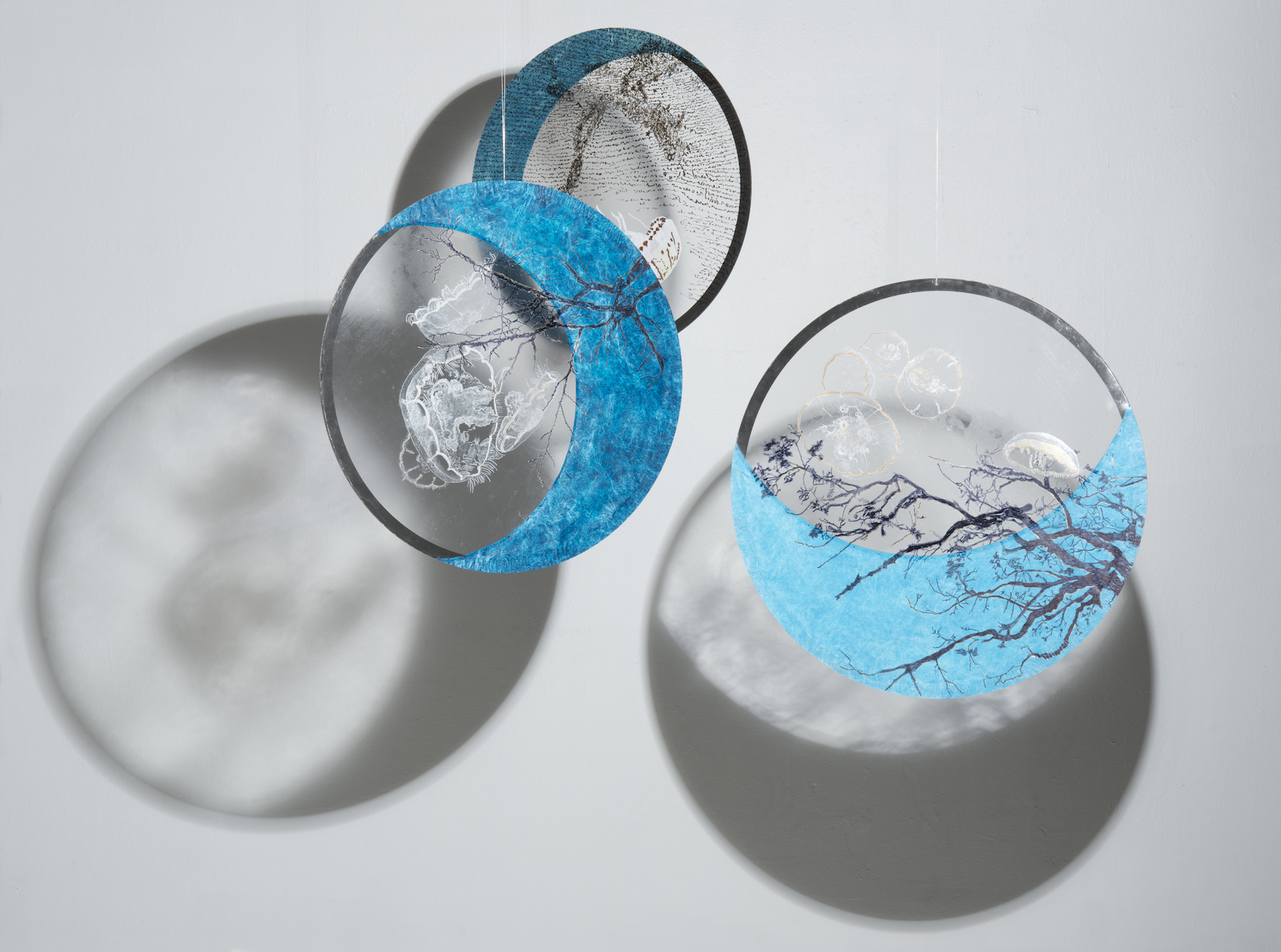 Jellies, 2018. © Mary Curtis Ratcliff. Acrylic and ink on polyester and tyvek, linen, steel, and monofilament. 56 x 66 x 62 in.